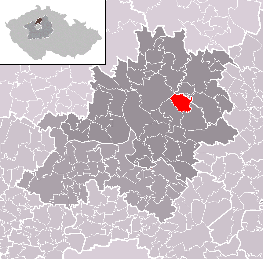 Location of Nebužely municipality within Mělník District and administrative area of Mělník as a Municipality with Extended Competence.